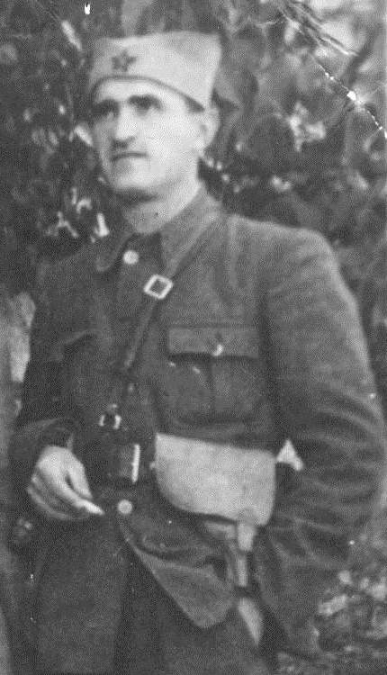 Milinko Đurović (1910-1988)